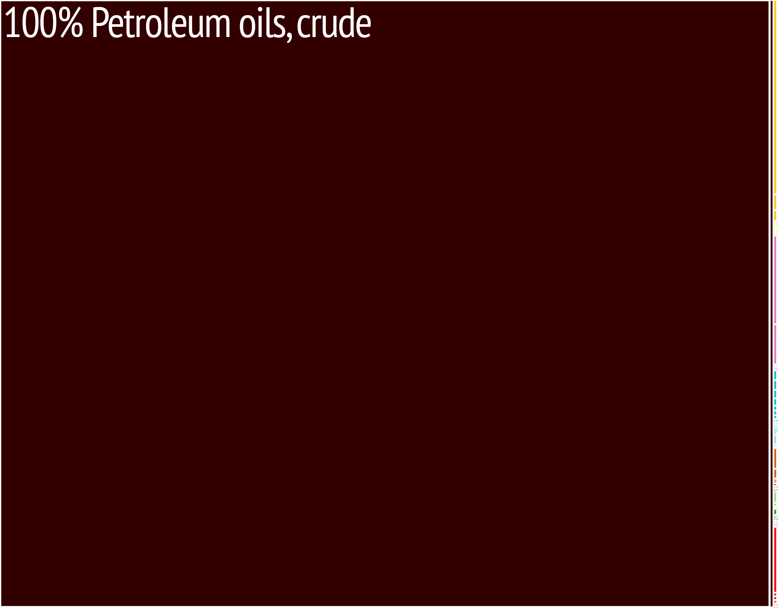 Iraq Export Treemap from MIT Harvard Economic Complexity Observatory